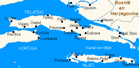 Neum and Peljesac